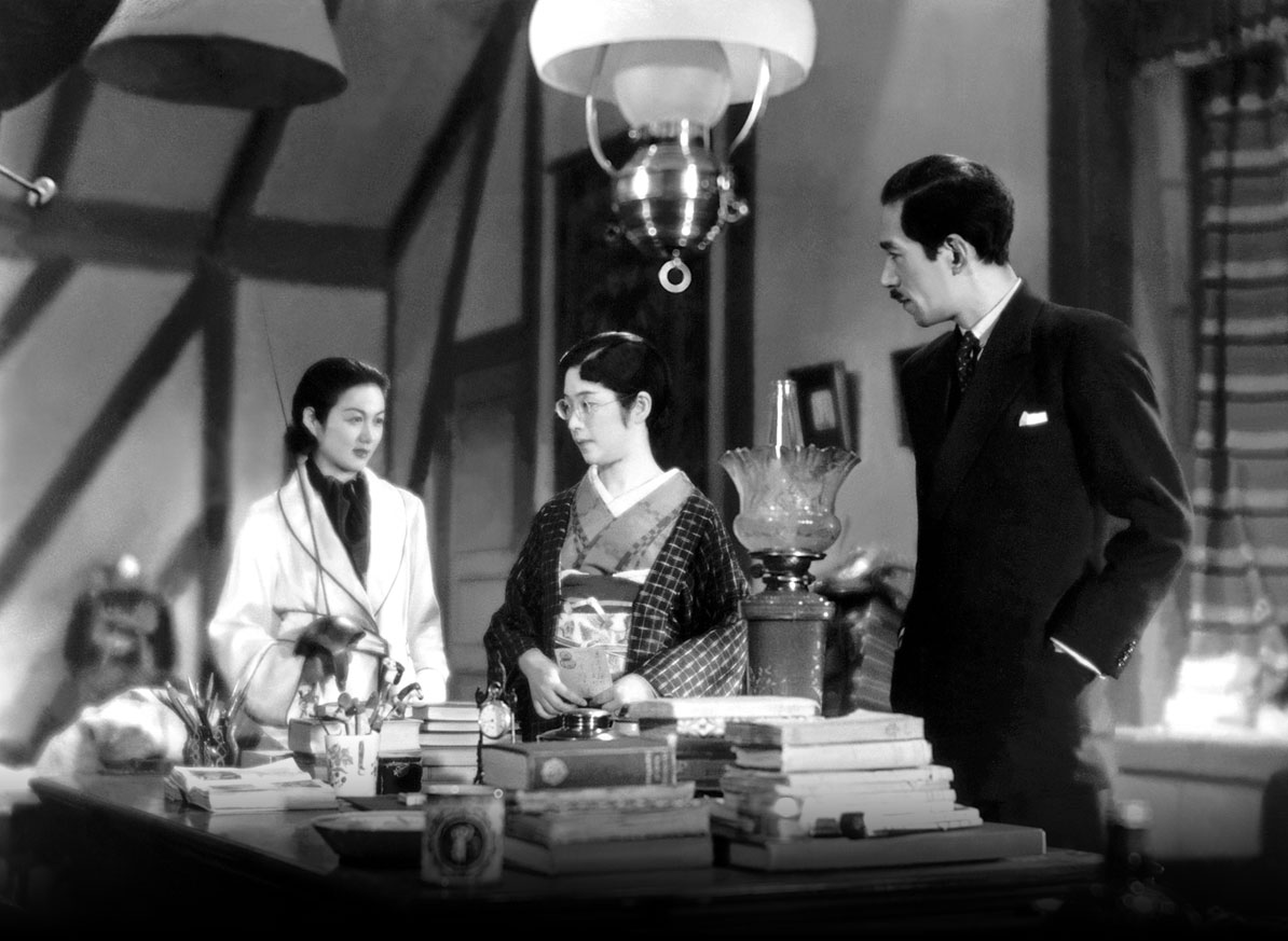 Michiko Kuwano, Sumiko Kurishima and Tatsuo Saitō in Shukujo wa nani o wasureta ka (淑女は何を忘れたか) directed by Yasujirō Ozu - 1937